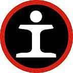 Illinois Central Gulf Railroad logo.